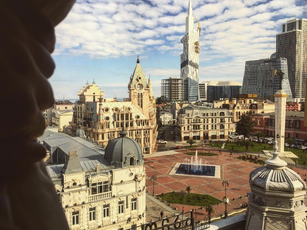 Skyline of Batumi, Georgia